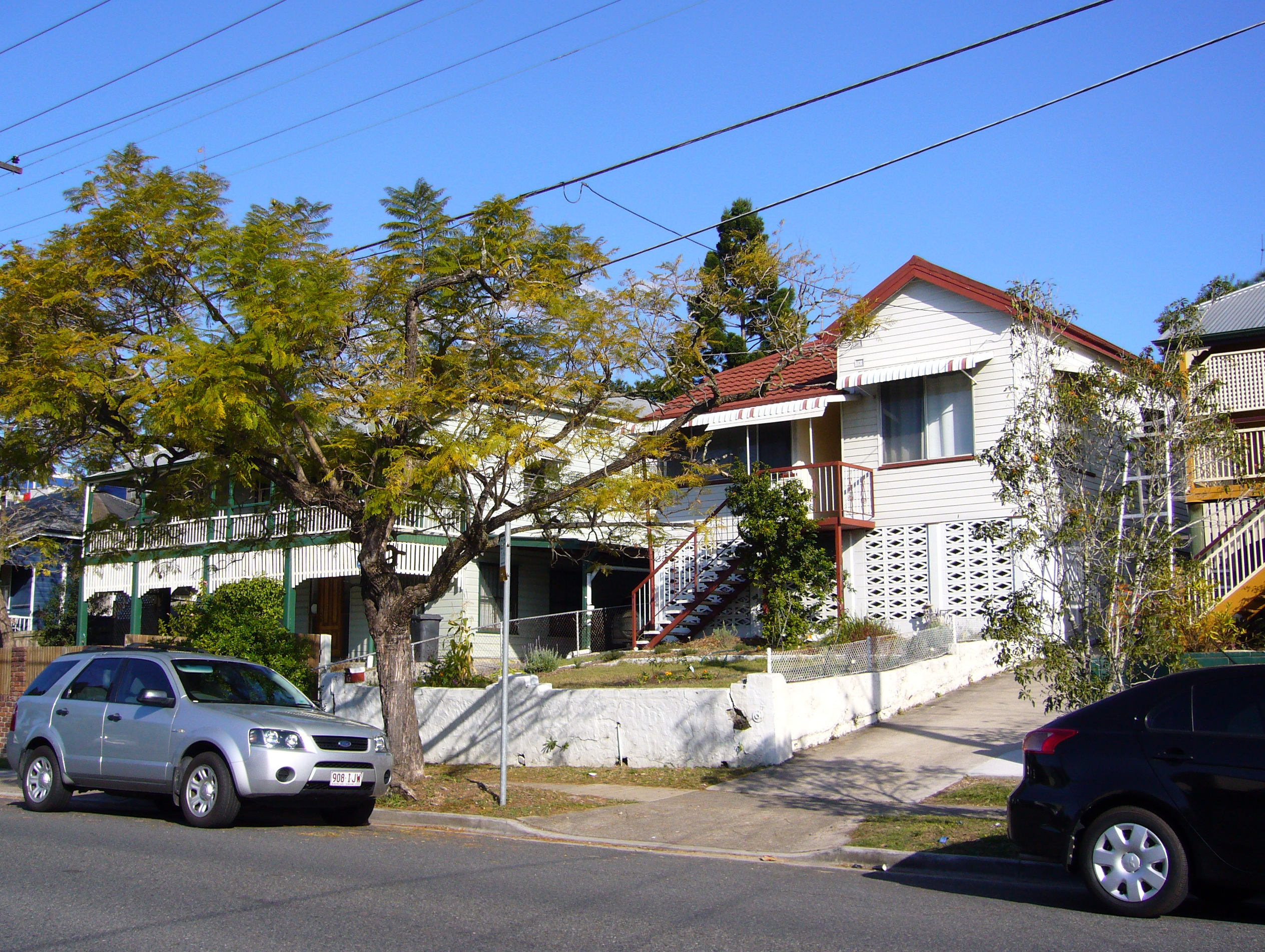 Brisbane